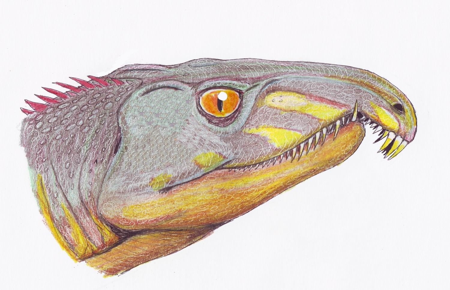 Archosaurus rossicus head